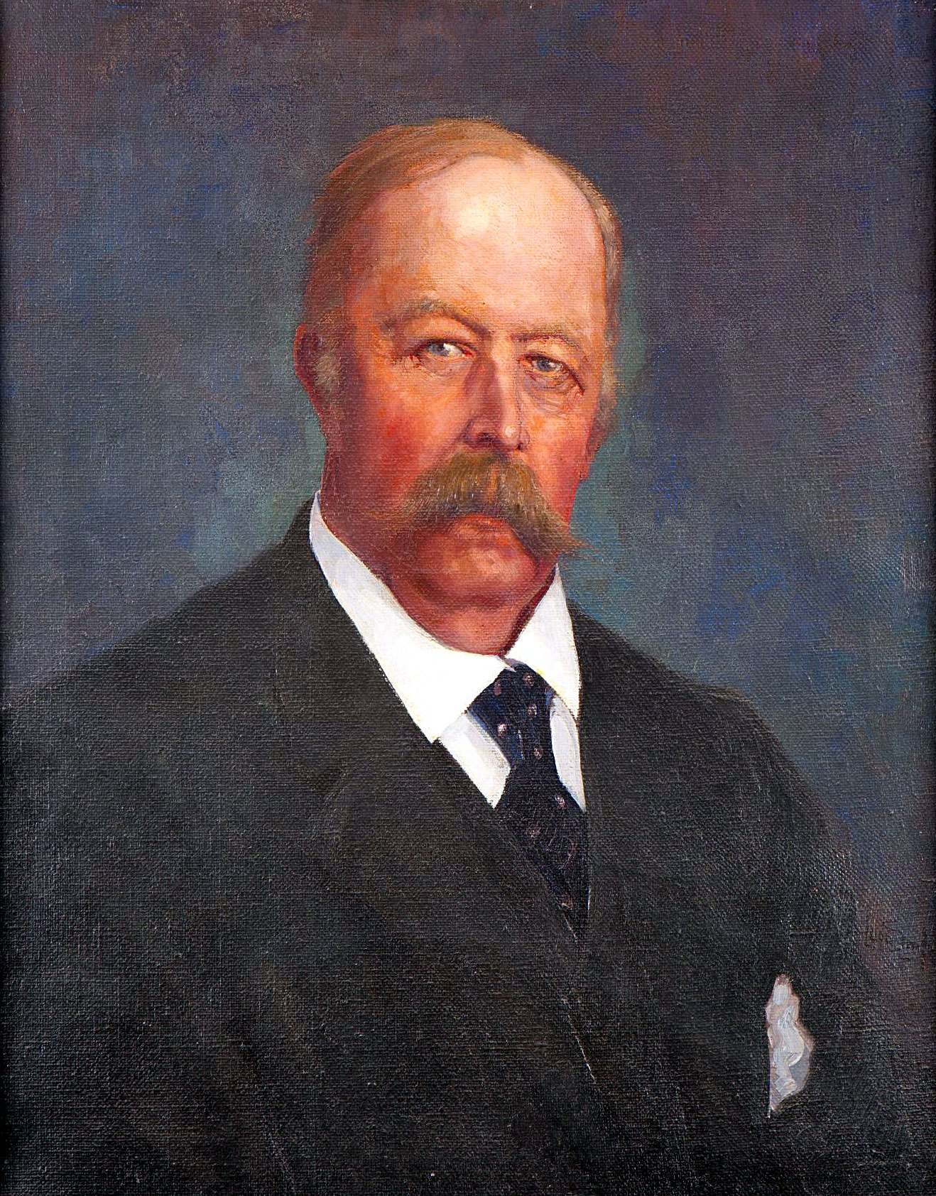 Gerrit Kalff (1856-1923) Dutch historians, linguists and literary scholars